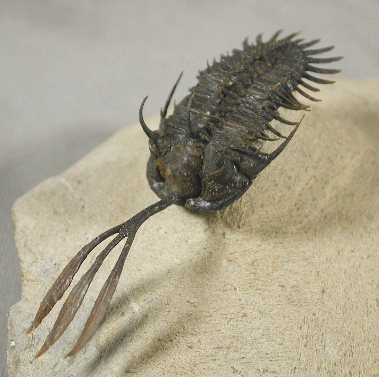 Walliserops trifurcatus (Morzadec, 2001) From the Lower to Middle Devonian age Timrhanrhart formation south of Foum Zguid (Jbel Gara el Zguilma) in south central Morocco. Specimen housed in the Royal Ontario Museum, Canada. "Camera loc" is locality co-ordinates.